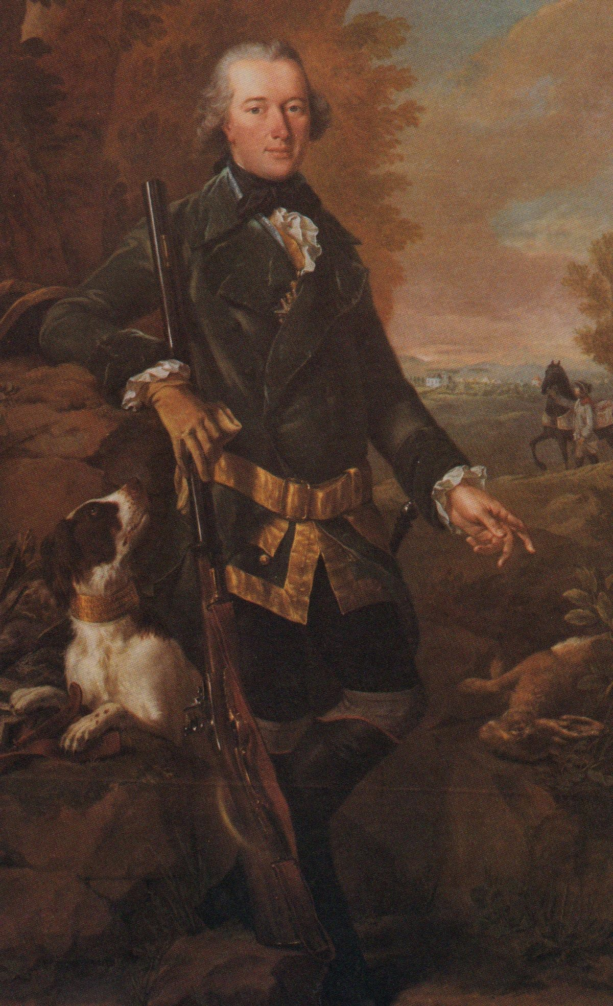 Carl Aemil Ulrich von Donop (1732-1777)